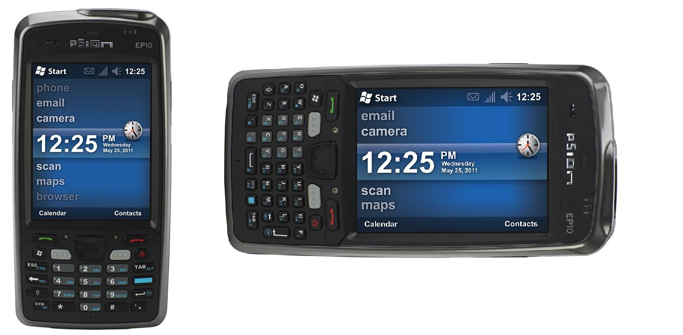 Robuuste PDA met hoge droprate, barcodelezer, UMTS, wifiradio, bluetooth, diverse sensoren